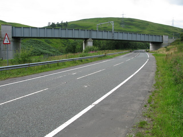 Harthope Viaduct over B 7076 This viaduct carries the main south railway line. Though the road is now numbered B7076, this used to be the A74 and the viaduct here was always a notable feature when travelling north.